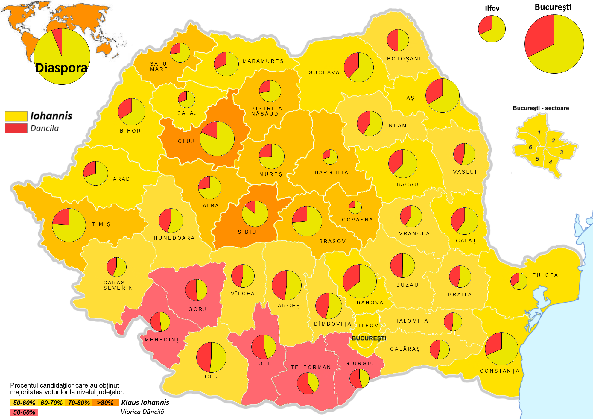 Results of the second round of the romanian presidential elections 2019 by counties